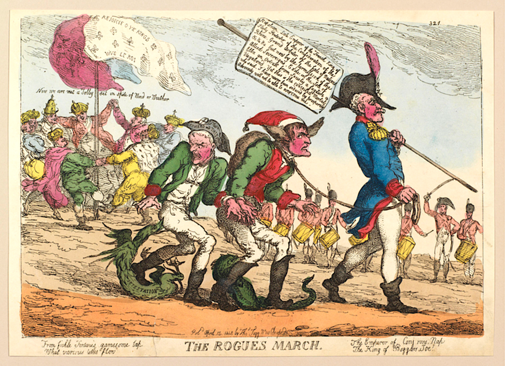 Political cartoon by Thomas Rowlandson: Blücher leads the Bonaparte brothers to exile in the Rogue's March